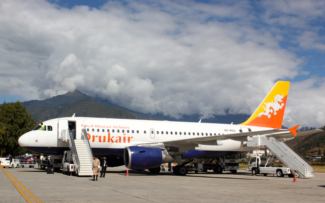 An airplane of Druk Air at the Paro Airport